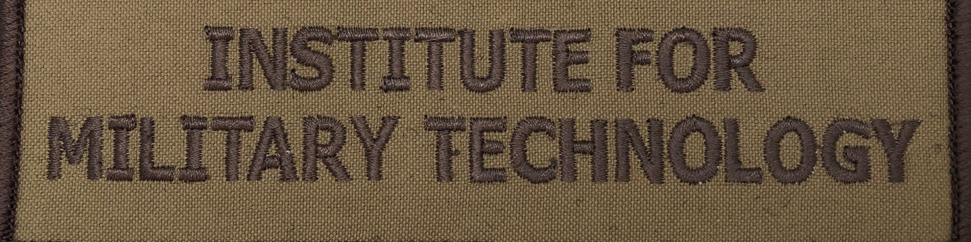 Logo for Institute for Military Technology at Royal Danish Defence College.